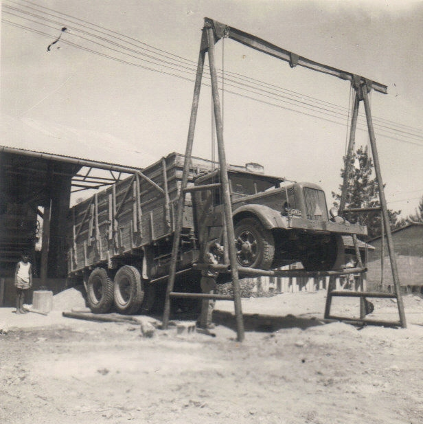 Kibbutz\'s truck repair facility next to the garage.